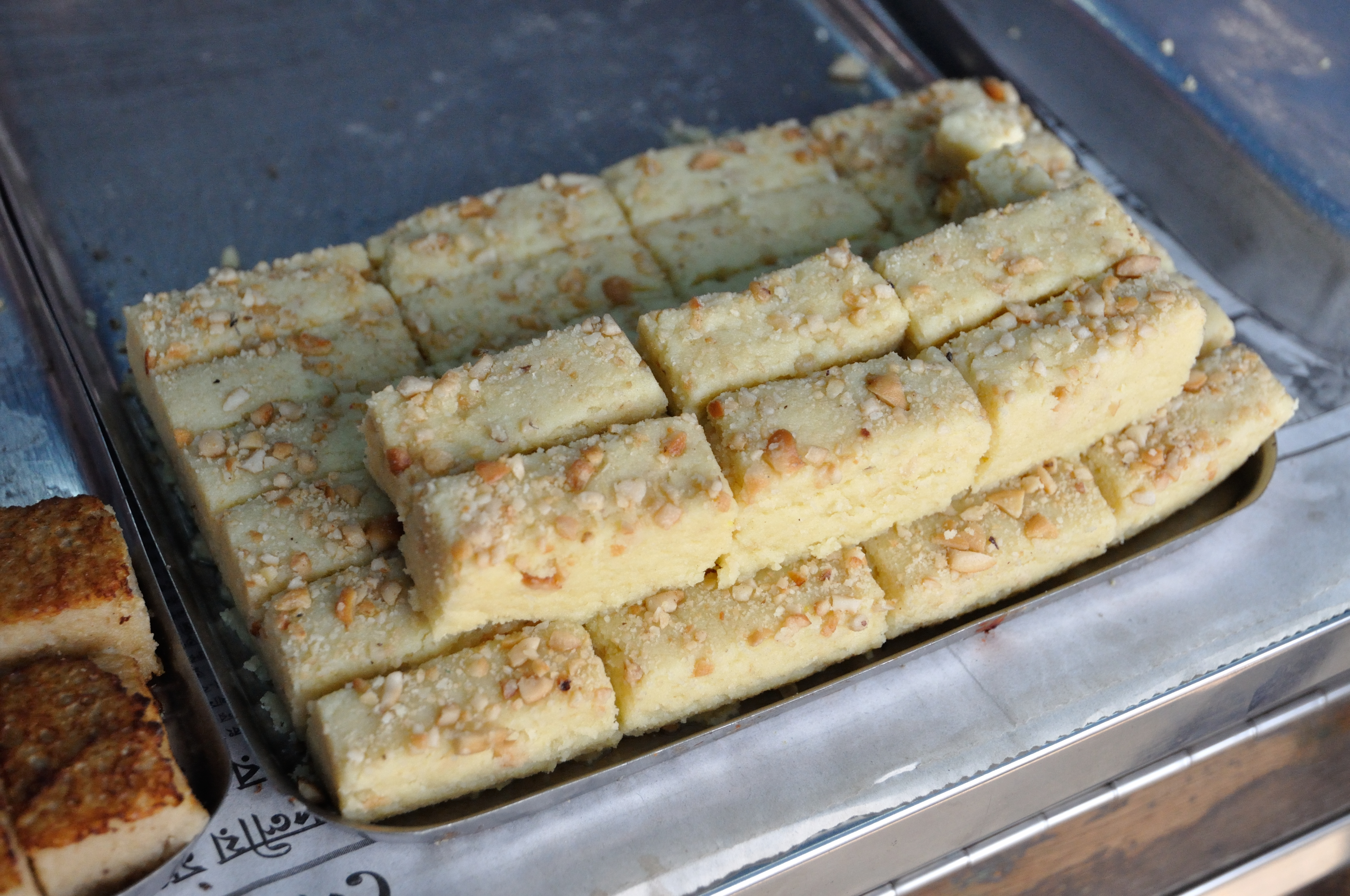 Photographed in West Bengal, India.